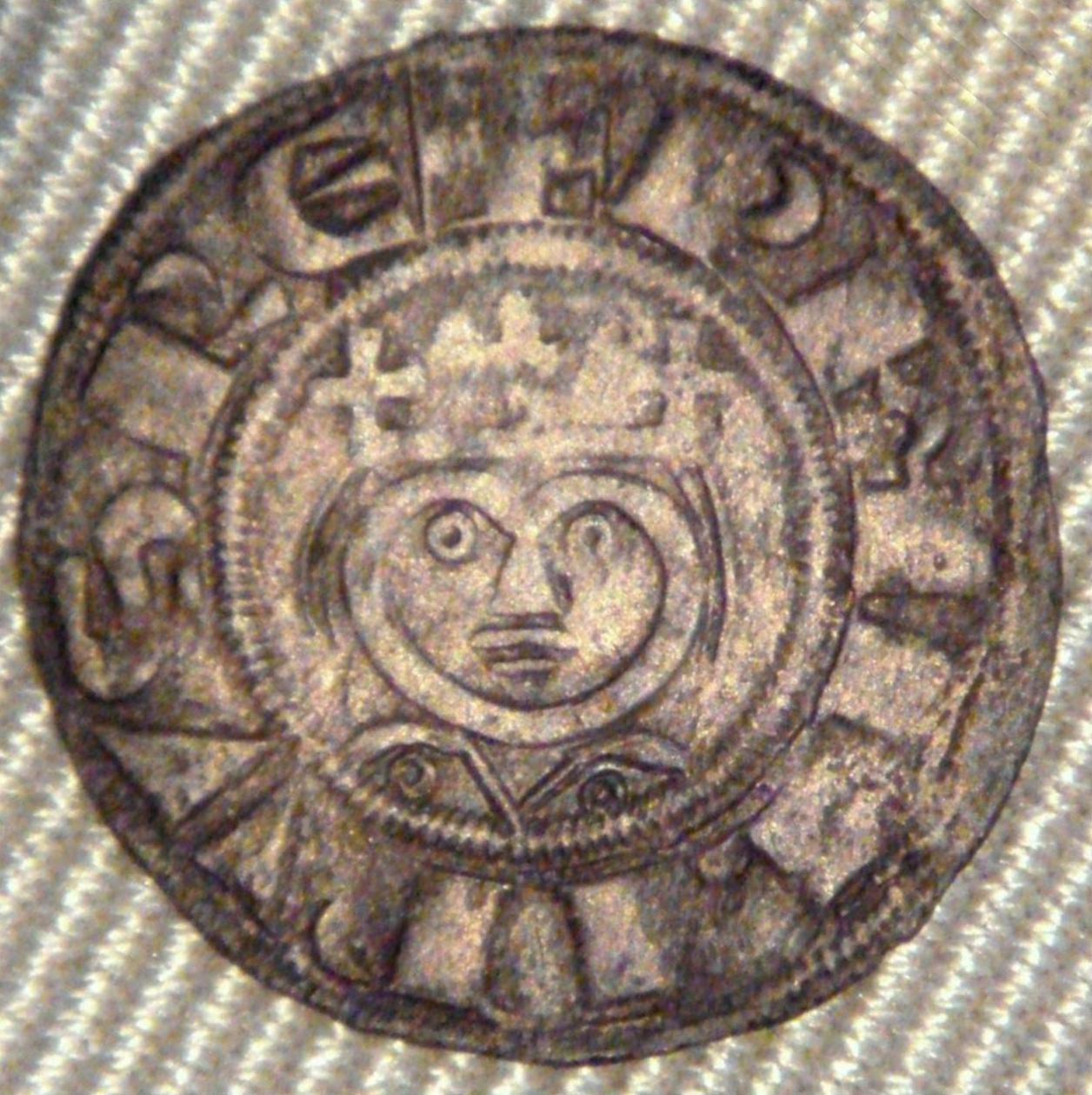 Philippe_II_denier_Laon_1180_1201